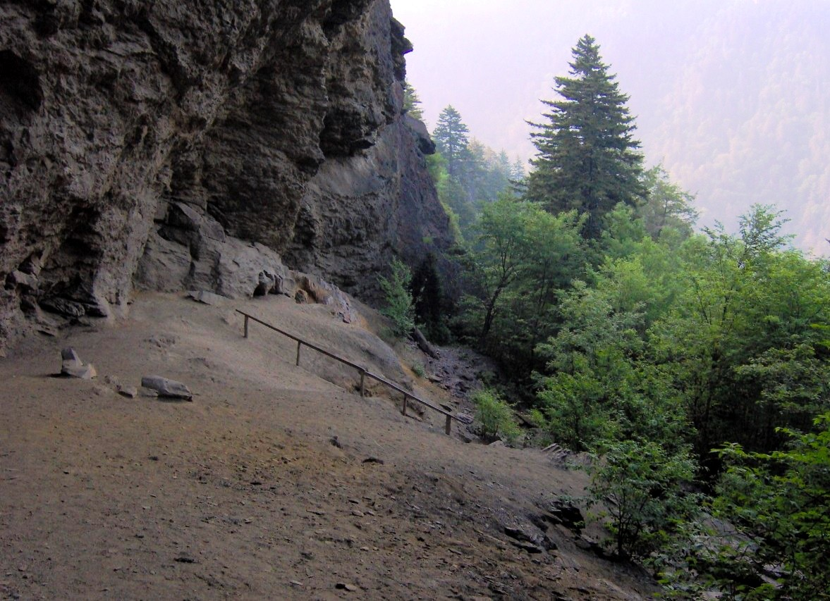 Alum Cave Bluffs along the Alum Cave Trail in the Great Smoky Mountains National Park of Tennessee, in the southeastern United States. The trail passes along a wide, barren area at the base of the bluffs, appx. 2.4 miles from the trailhead.